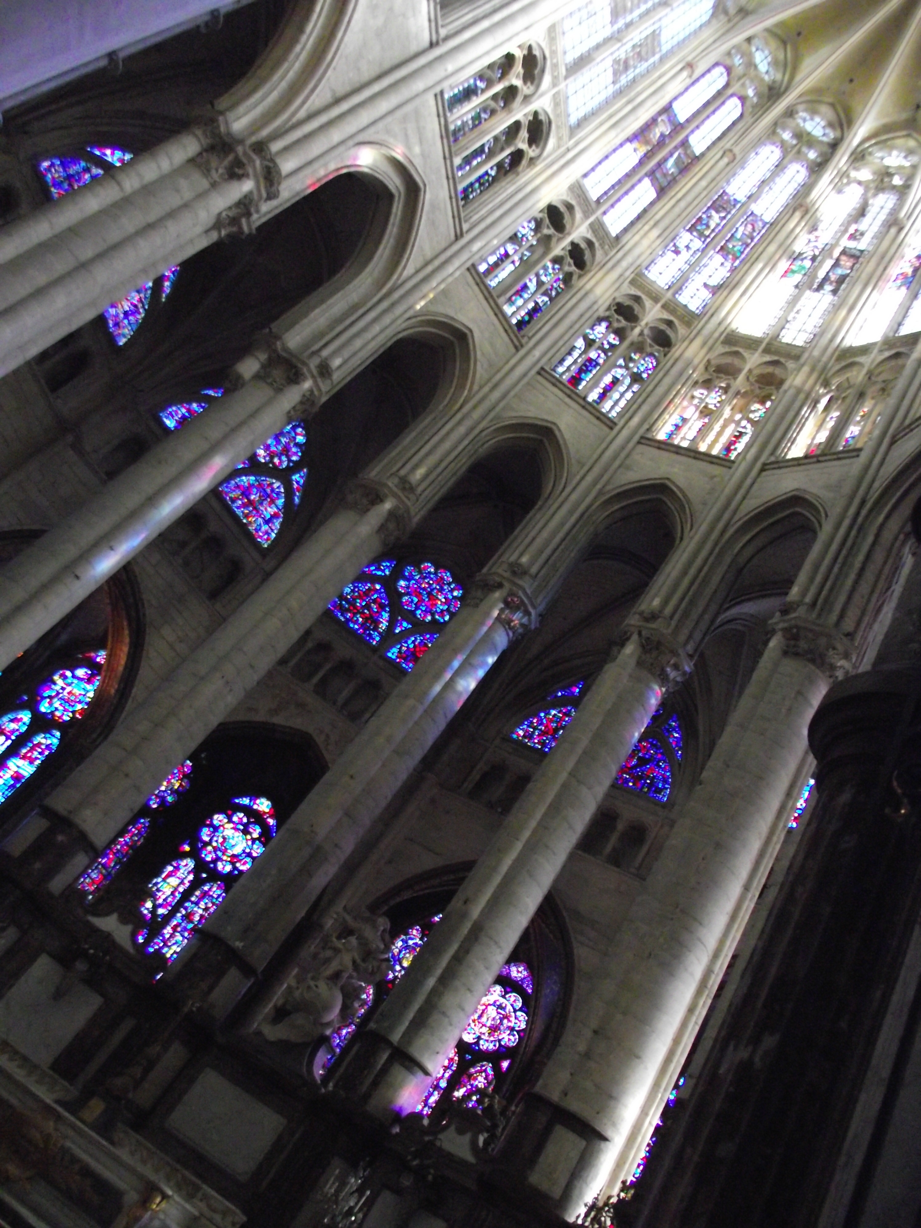 Beauvais, Saint Peter's Cathedral, Choir, XIII Century